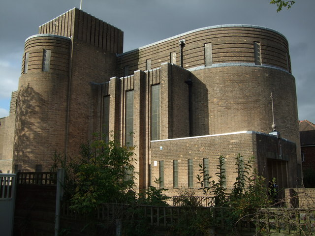 St Nicholas, Burnage Built in 1931-2 (architects Welch, Cachemaille-Day & Lander).